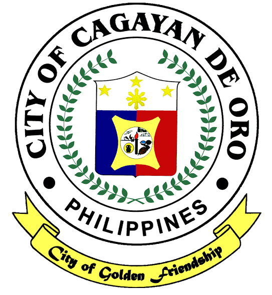 The official seal of Cagayan de Oro